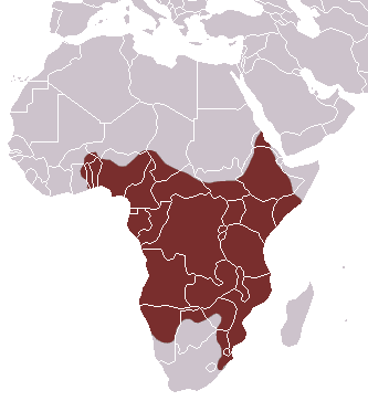 Rusty-spotted Genet (Genetta maculata) range